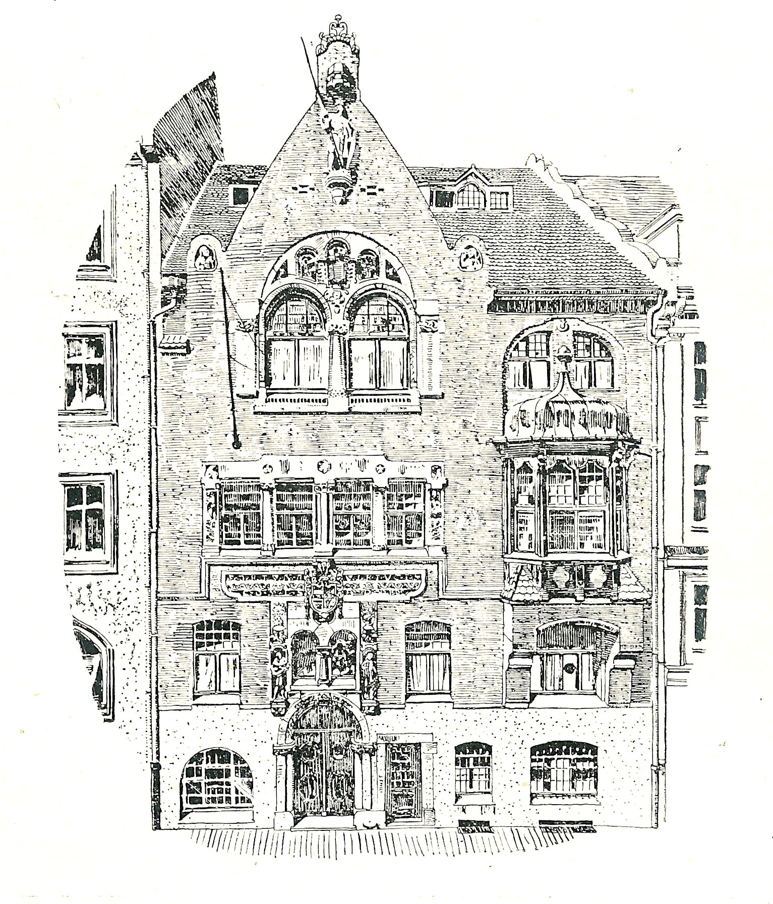 Former house of student fraternity Corps Palatia München, Reitmorstrasse 28, Munich/Bavaria, Germany